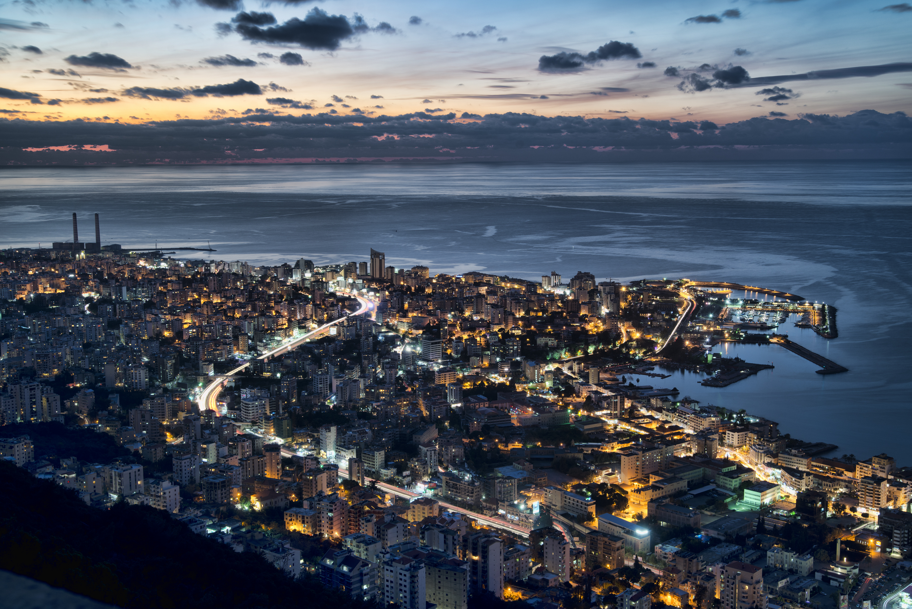 Night comes to life View from Harissa Lebanon